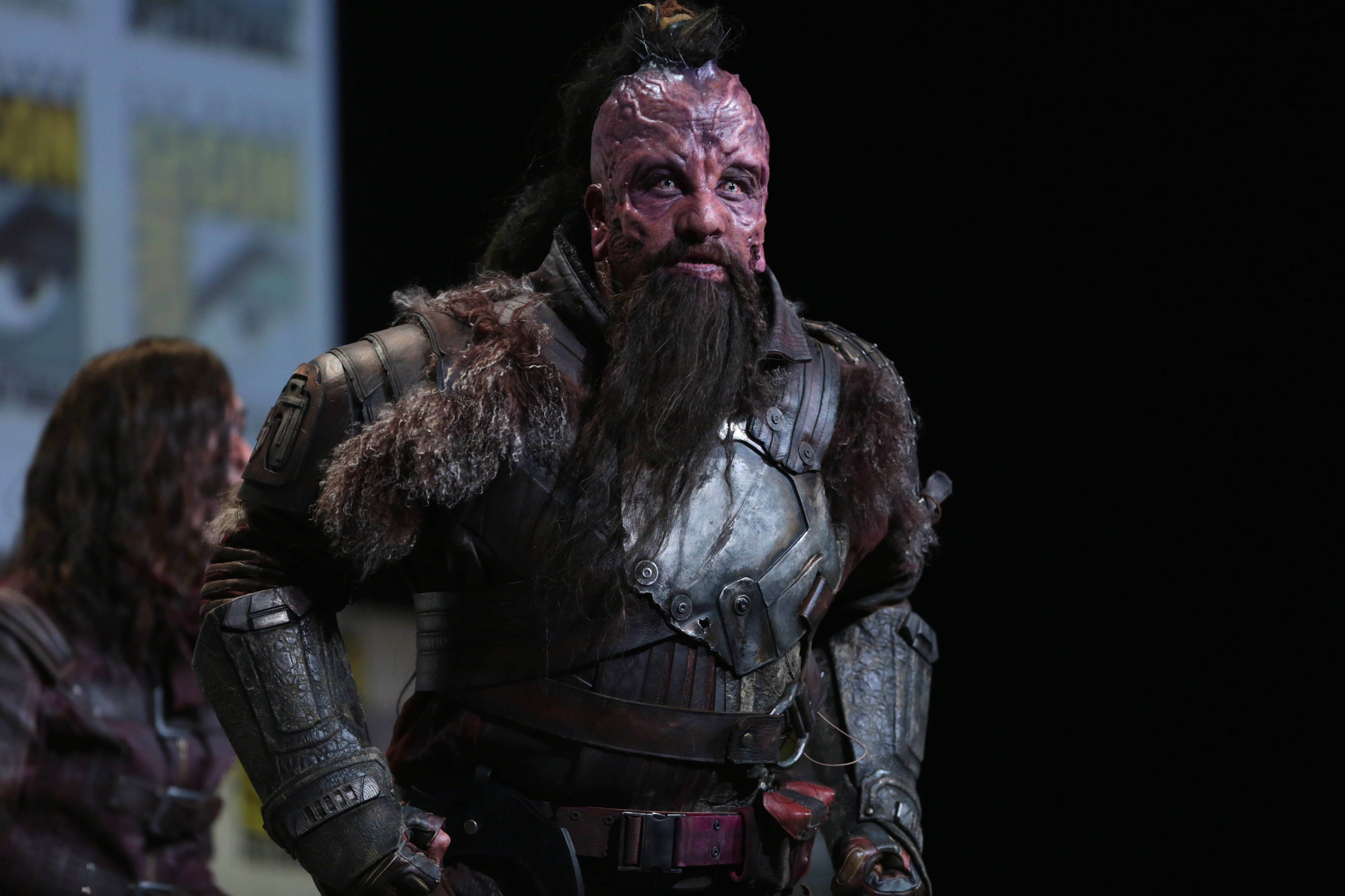 Ravager speaking at the 2016 San Diego Comic Con International, for "Guardians of the Galaxy Vol. 2", at the San Diego Convention Center in San Diego, California.